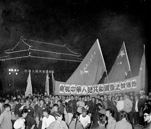 People celebrating the adopt of the Constitution of the People's Republic of China at the Tiananmen Square on September 21, 1954.